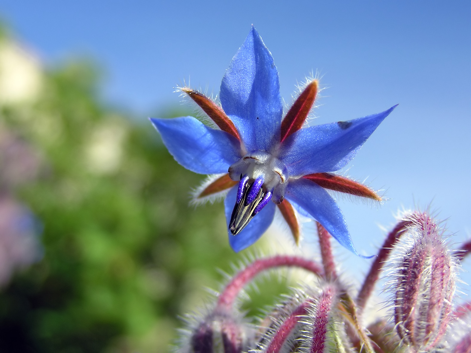 Borage, also known as "Starflower" (Borago officinalis), an annual herb the leaves and flowers of which are used in cookery. The seeds are a source of oil rich in gamma-linolenic acid.